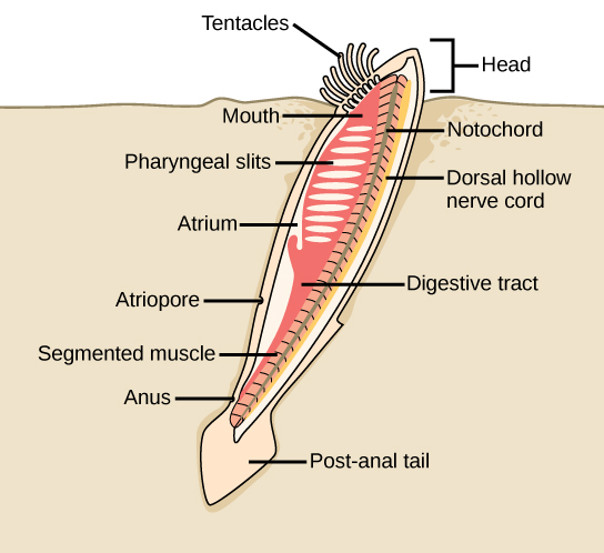 The lancelet, like all cephalochordates, has a head. Adult lancelets retain the four key features of chordates: a notochord, a dorsal hollow nerve cord, pharyngeal slits, and a post-anal tail. Water from the mouth enters the pharyngeal slits, which filter out food particles. The filtered water then collects in the atrium and exits through the atriopore.